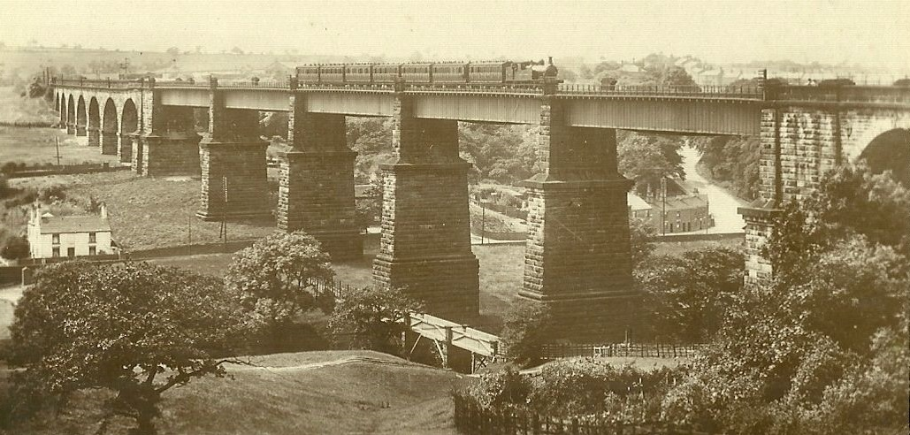 Dinting Railway Viaduct came into regular use in 1844. Its original track-carrying top-piece consisted of wooden arches, but these soon had to be replaced by the straight iron structure which remains today. The photograph is dated 1916, before the additional brick piers of the 1920s destroyed the symmetry of the viaduct.